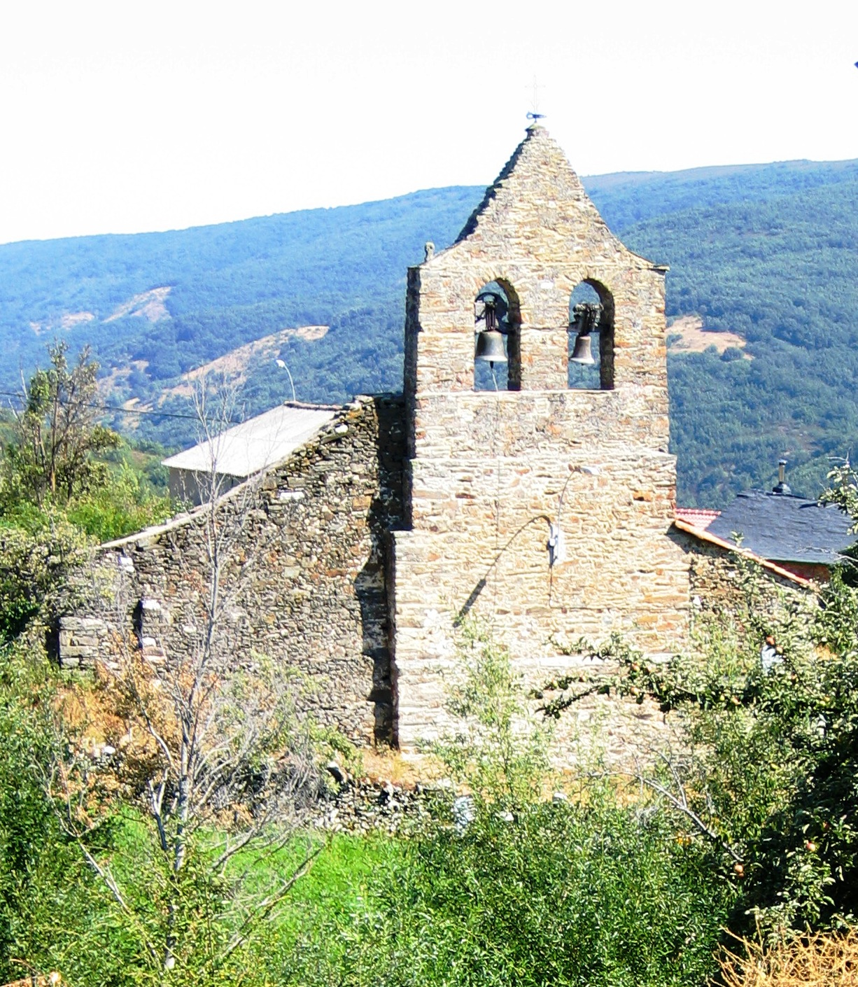 Church tower in Rosales (Riello), Spain